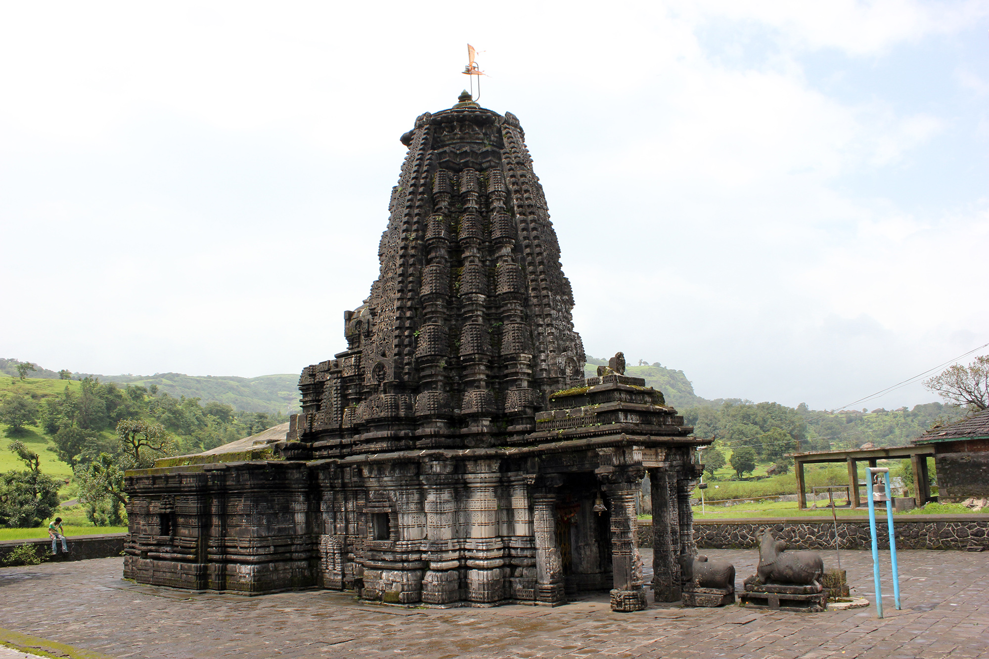 Amriteshwar Temple